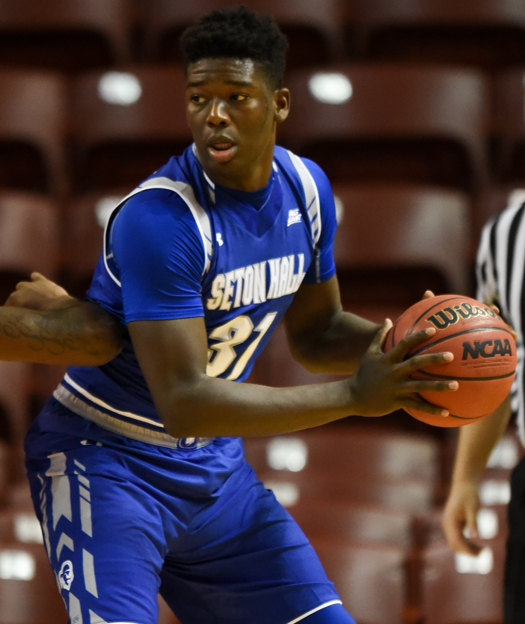 Seton Hall's Angel Delgado